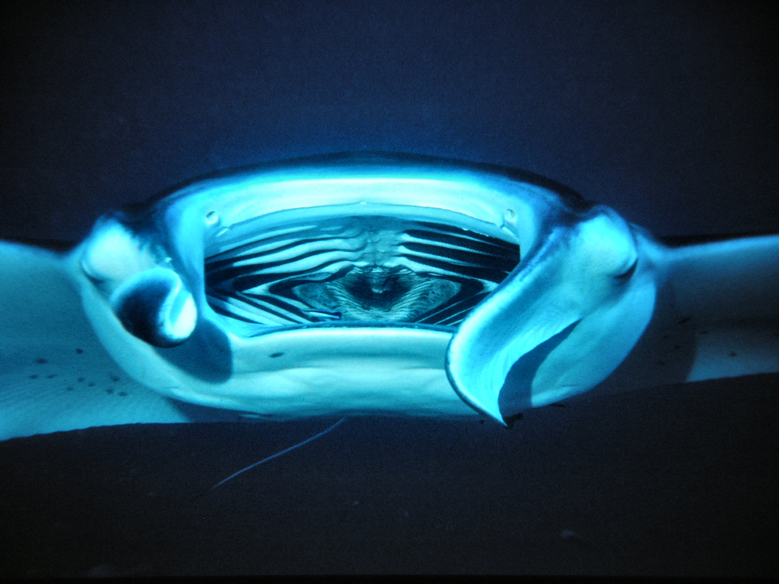 Reef Manta (Manta alfredi) with a cleaner fish in its mouth. Fesdu island (Ari Atoll), Maledives. 10.01.1990